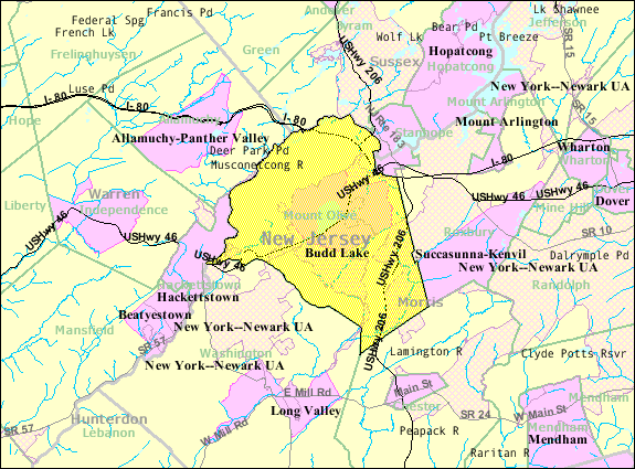 Census Bureau map of Mount Olive Township